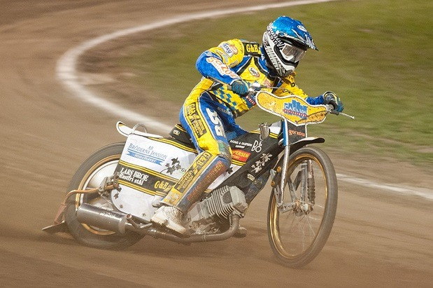 Hans Andersen representing "Stal" Gorzow in season 2011.